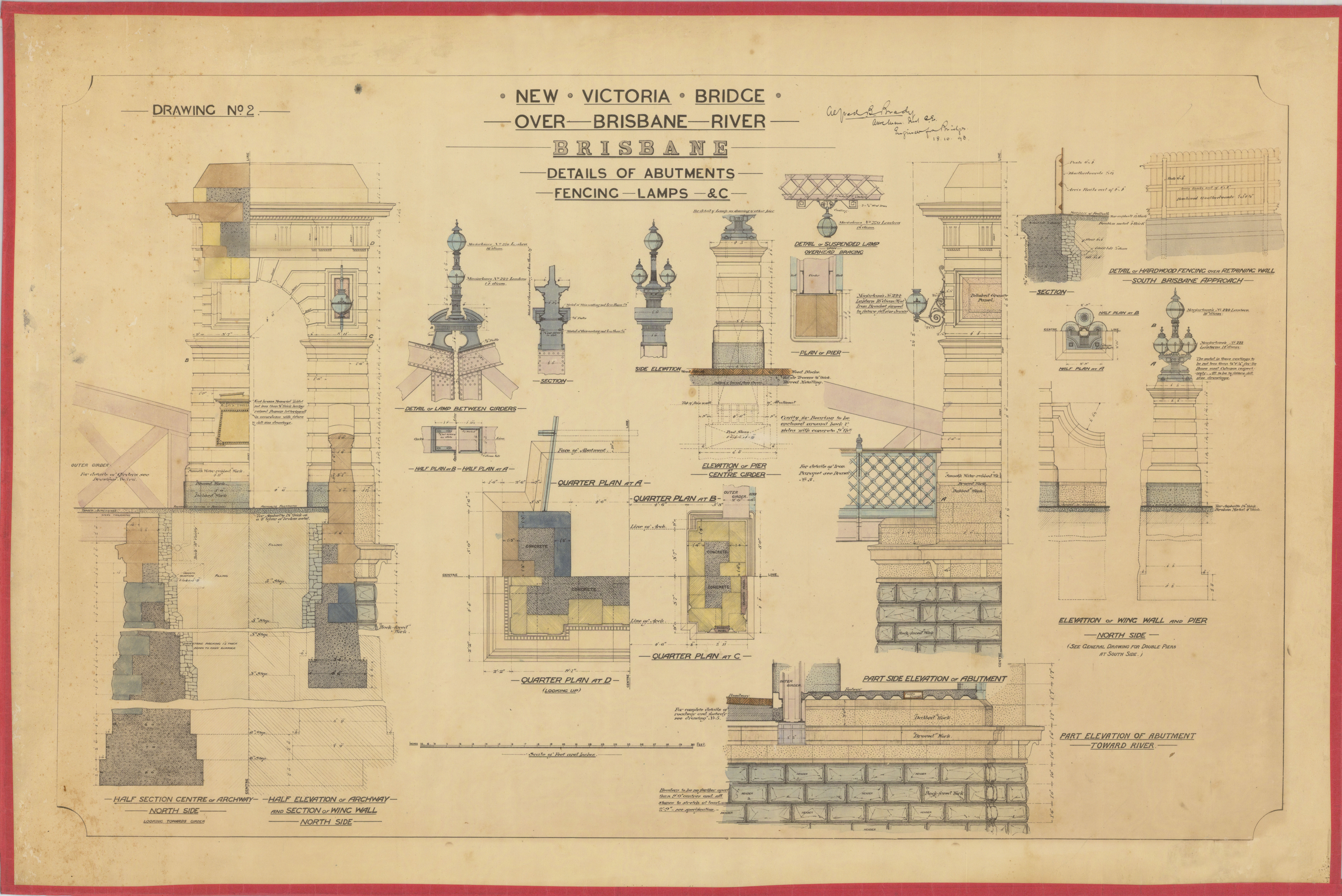 Victoria Bridge, Brisbane. Details of abutments, fencing, lamps, archway etc